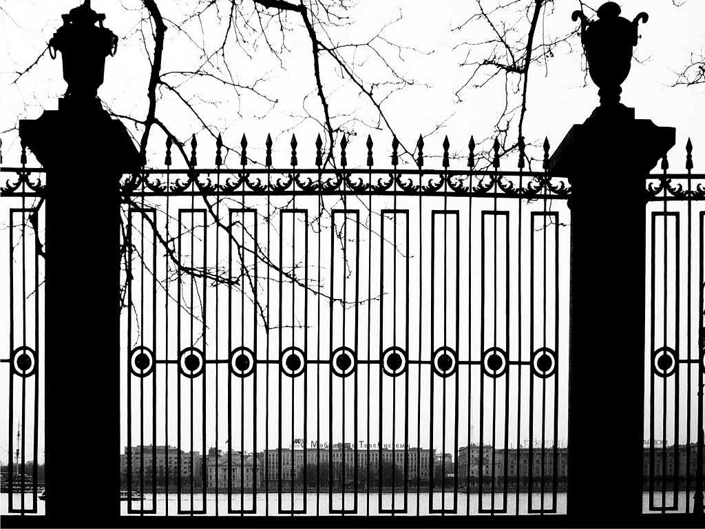 The grille of Summer Garden, photograph by Evgeny Gerashchenko.